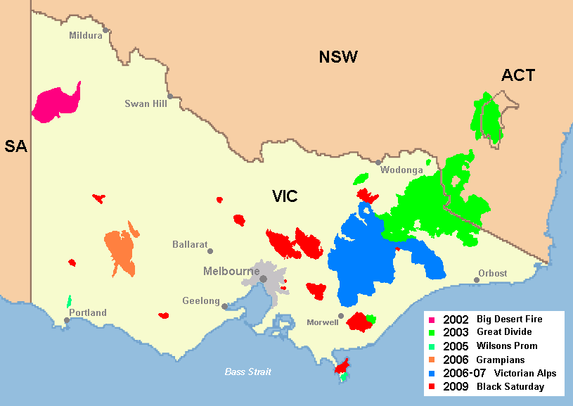 Major bushfires in Victoria and surrounds in the 2000's. Map created by myself, September 2009. [PLEASE NOTE: The map is incorrect. The 2003 Fires were the Alpine Fires shaded green and the 2006/07 were the Great Divide Fires shaded blue.]